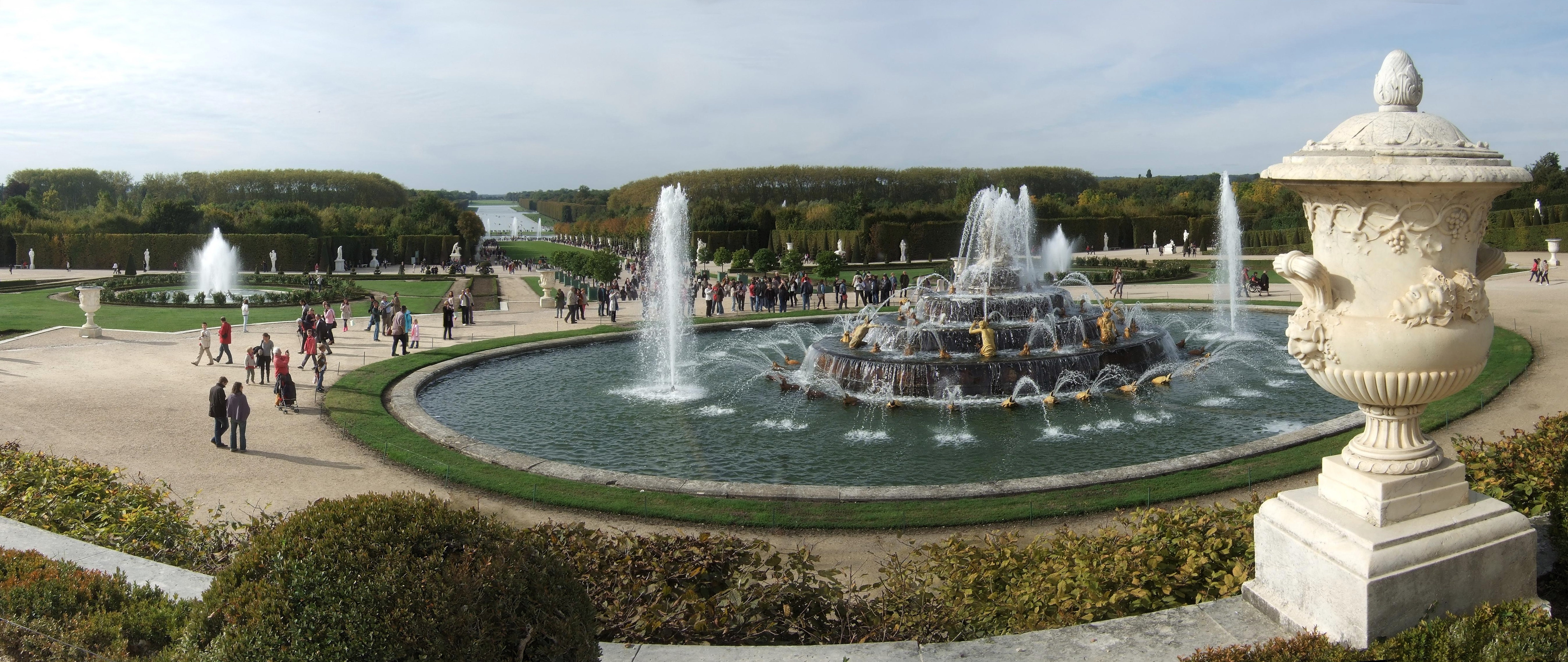 Palace of Versailles. At the forefront of Latonabrunnen (mother of Apollo) and later in Allée Royale, Great Basin of Apollo, and in the background of the Grand Canal.